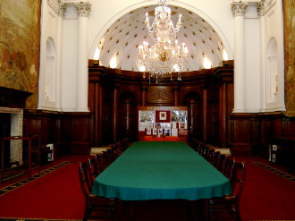 Irish House of Lords interior shot (small) Jtdirl's image. no c/r